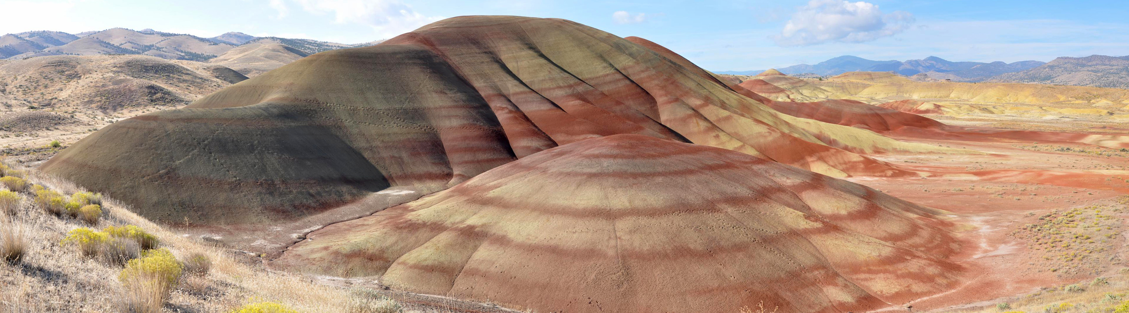 Panorama of the east face of hills in the Painted Hills Unit of the John Day Fossil Beds National Monument in the U.S. state of Oregon. Originally 13 horizontal images captured as two stacked rows. This panoramic image was created with Autostitch (stitched images may differ from reality).